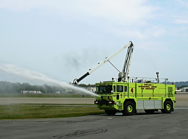 Demonstration of Portland Jetport's fire services, Maine/USA